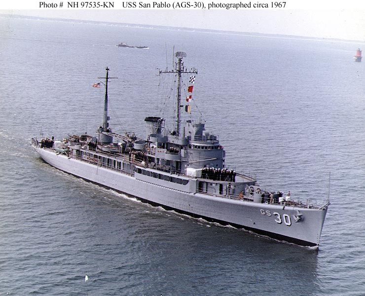 United States Navy hydrographic survey ship USS San Pablo (AGS-30)